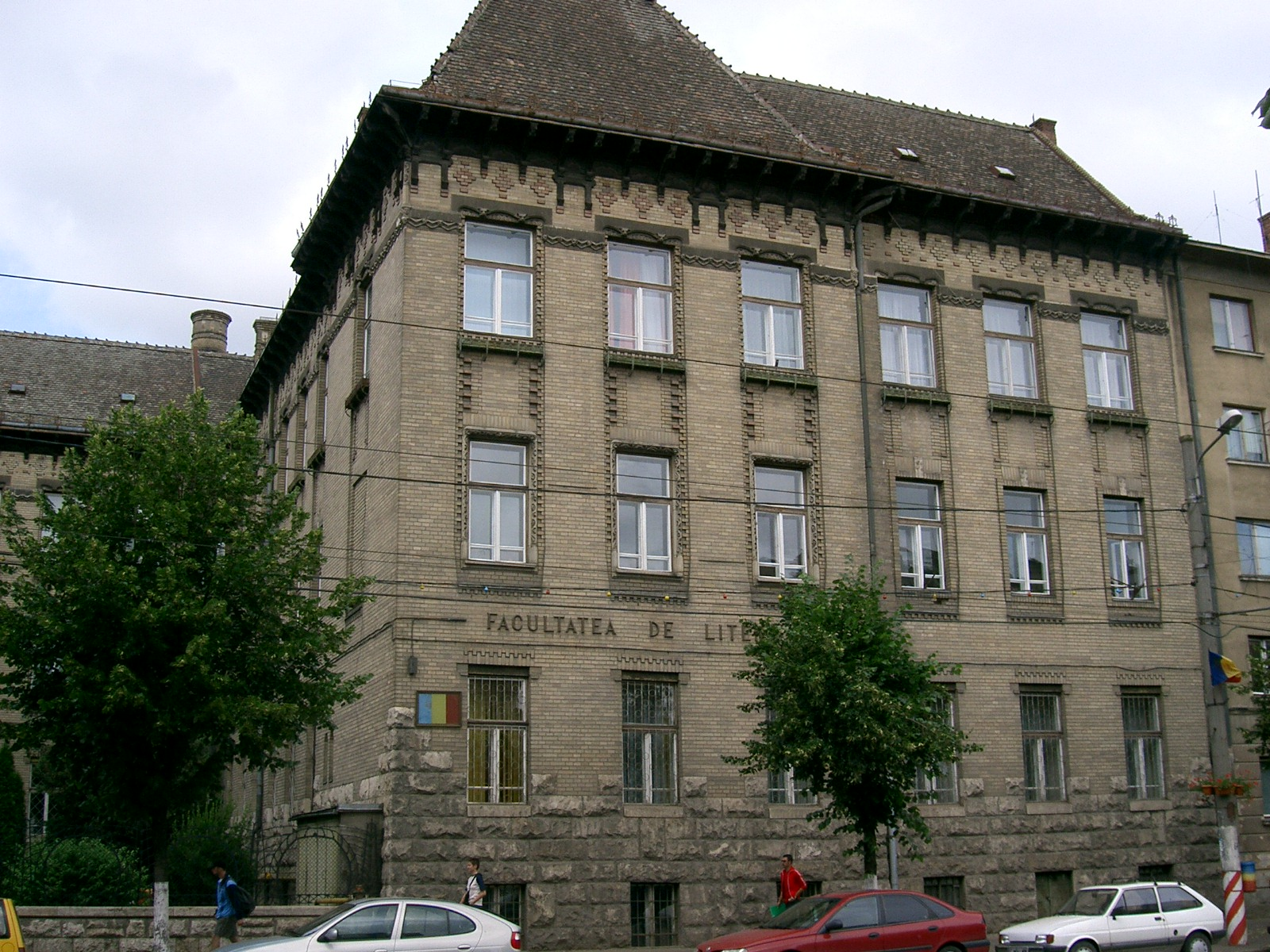 Cluj-Napoca, Romania, former Marianum Roman Catholic Institute, today Babes-Bolyai University, Faculty of Letters